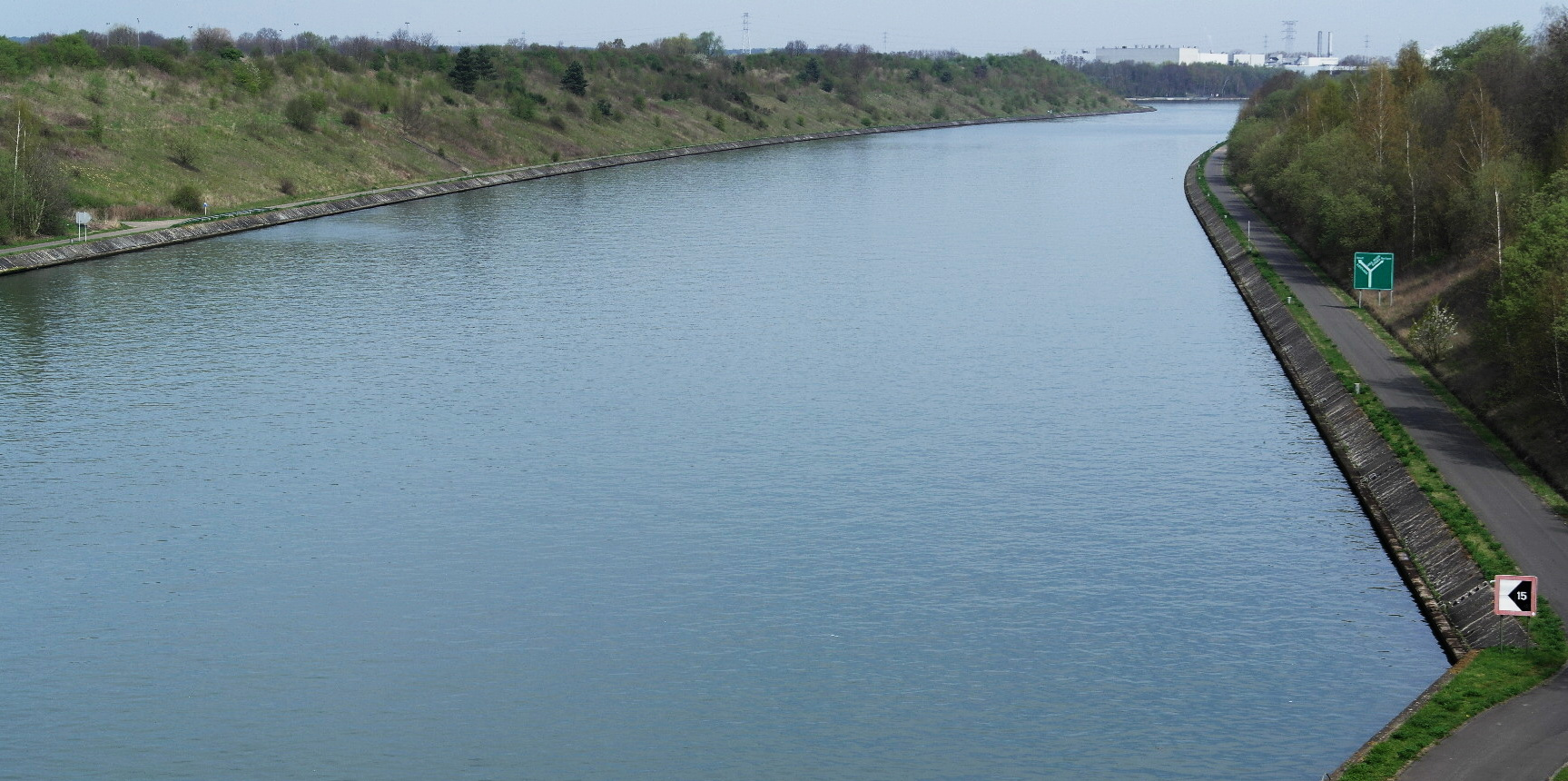 Veldwezelt, Limburg, Belgium. View of Albert Canal between Maastricht and Lanaken.